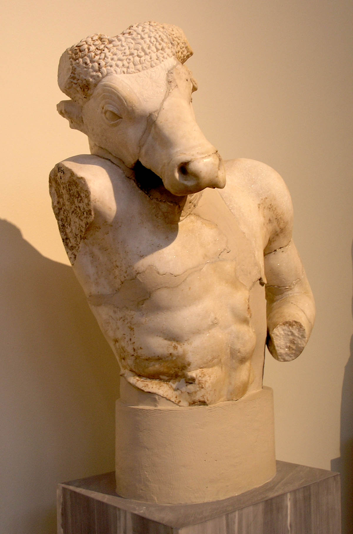 Bust of a statue belonging to a group representing Theseus and the Minotaur, erected on a fountain in Athens near St Demetrios Katéphoris in Plaka. It is a Roman copy of the famous, lost statuary group attibuted to Myron erected on the acropolis that represented Theseus fighting the Minotaur. National Archaeological Museum, Athens, number 1664a. Part of the Theseus statue is also in the museum (number 1664).